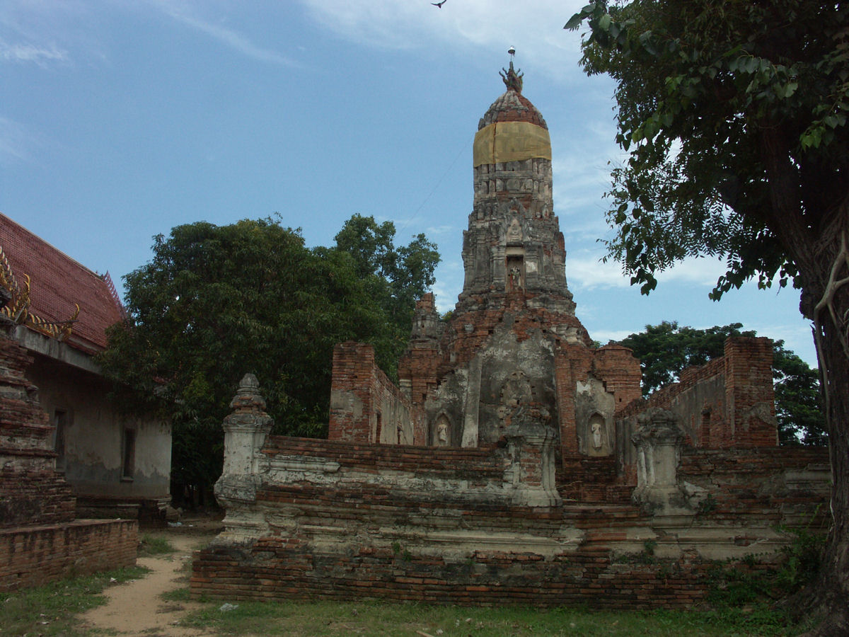 Wat Choeng Thar (วัดเชิงท่า), Ayutthaya, Thailand